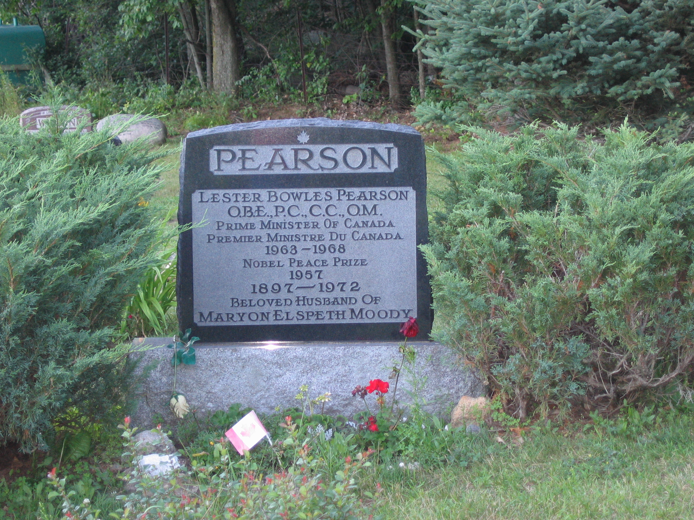 Lester B. Pearson's headstone, Wakefield Quebec